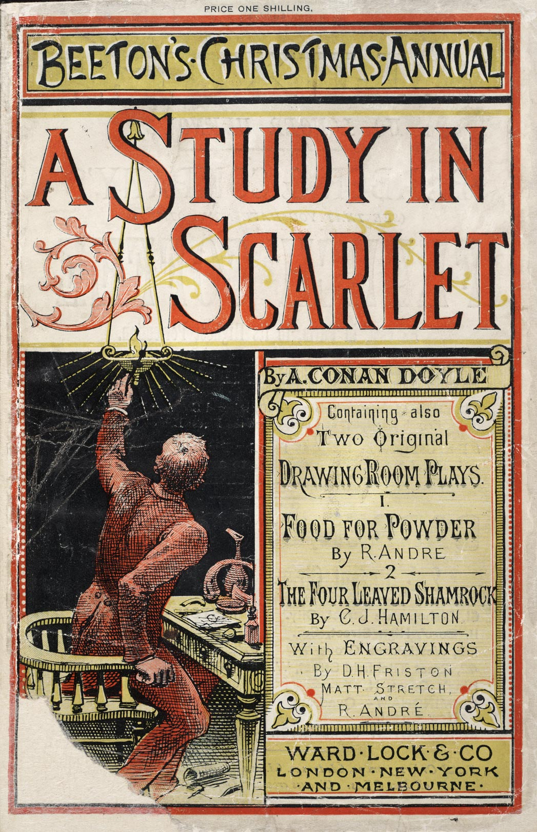 Title: "A Study in Scarlet" in Beeton’s Christmas Annual. This rare magazine features the first appearance of Sherlock Holmes in print. Creator: Arthur Conan Doyle Date: 1887 Published: London: Ward, Lock & Co Identifier: 823.91 D598 1887; beetons-christmas-annual_cv Format: Magazine Rights: Public domain